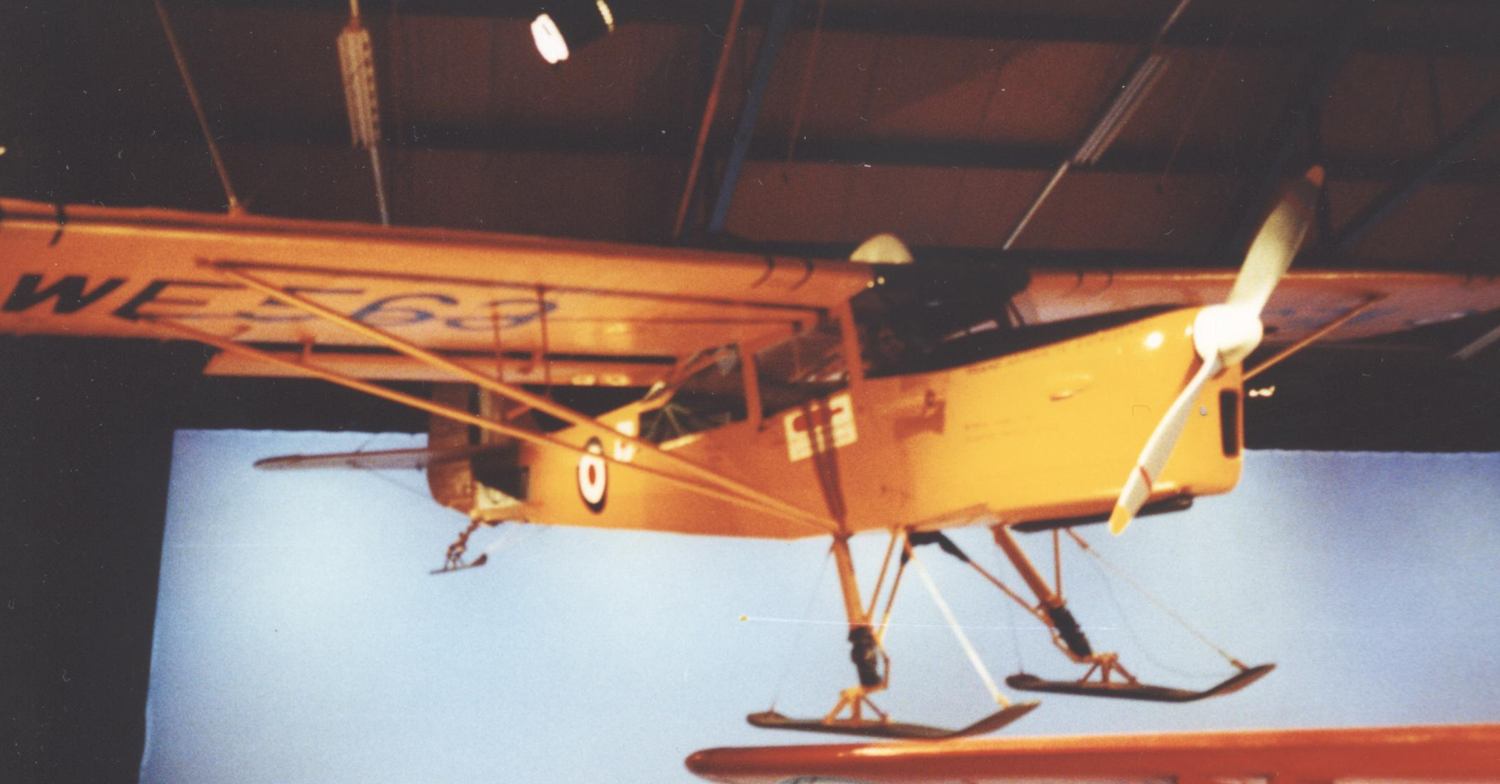 Auster T.7C Antarctic WE563 (NZ1707) used by the Anglo-NZ Trans-Antarctic Expedition displayed at the RNZAF Museum, RNZAF Wigram near Christchurch, South Island.